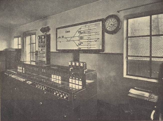 Interior of the signal box at Porto - São Bento Railway Station, in Portugal. This photograph was originally published in the Gazeta dos Caminhos de Ferro No. 1125, of the 1st November 1934, and scanned by the Hemeroteca Municipal de Lisboa.